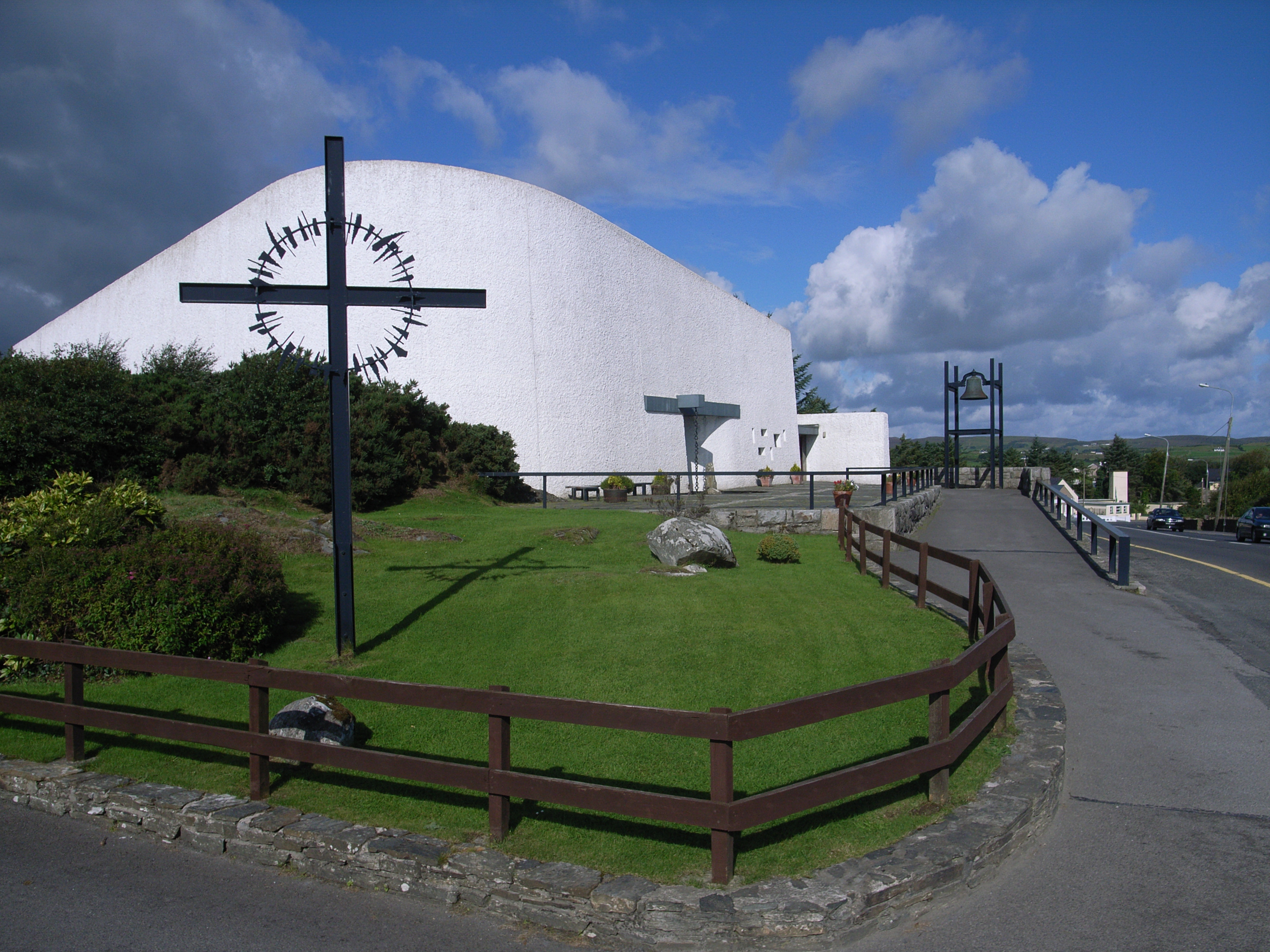 Archangel Saint Michael Church (Roman Catholic), Creeslough, County Donegal, Ireland